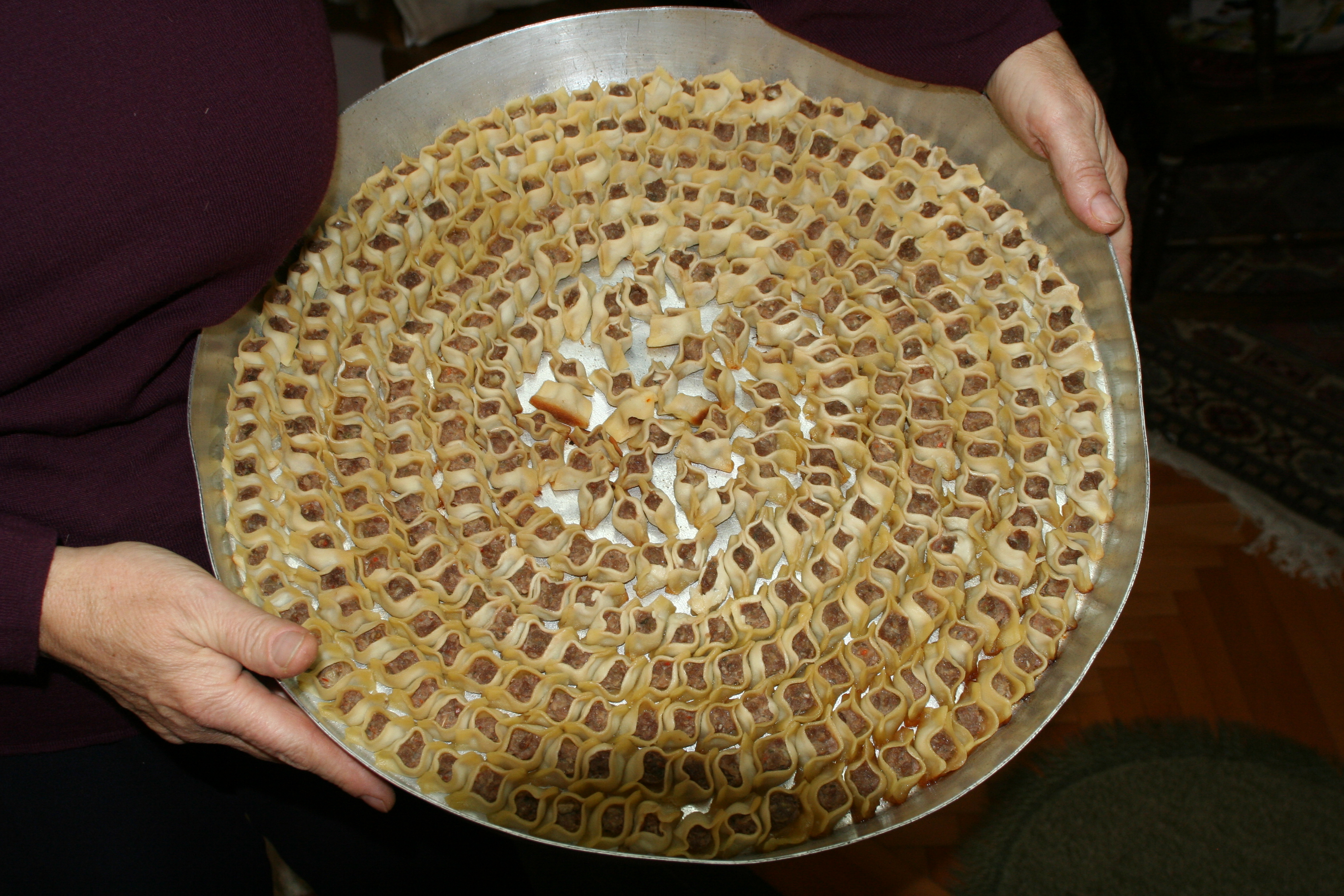 Manti (Mantı) made by Fatma. Very delicious...